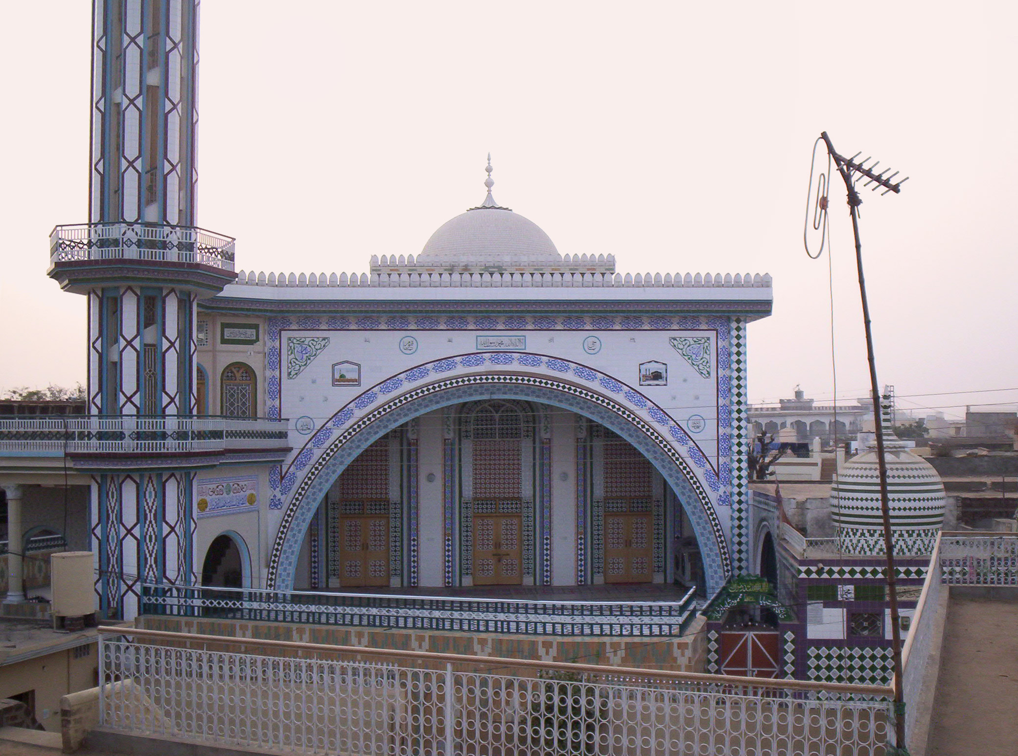 Jamia Mosque Gharmala — Jhelum, Punjab, Pakistan. by Qadeer Hussain